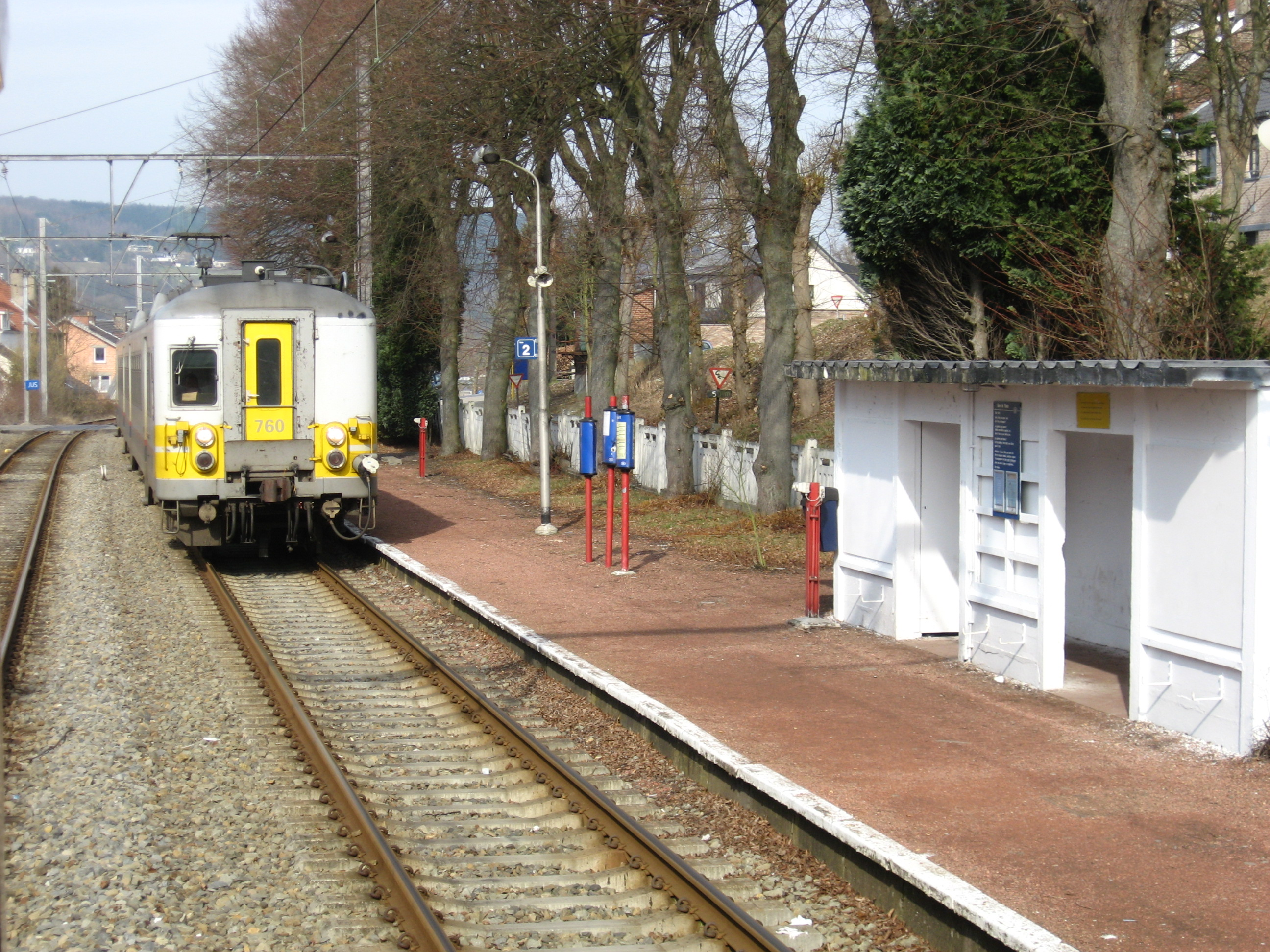 Station Theux on line 44.